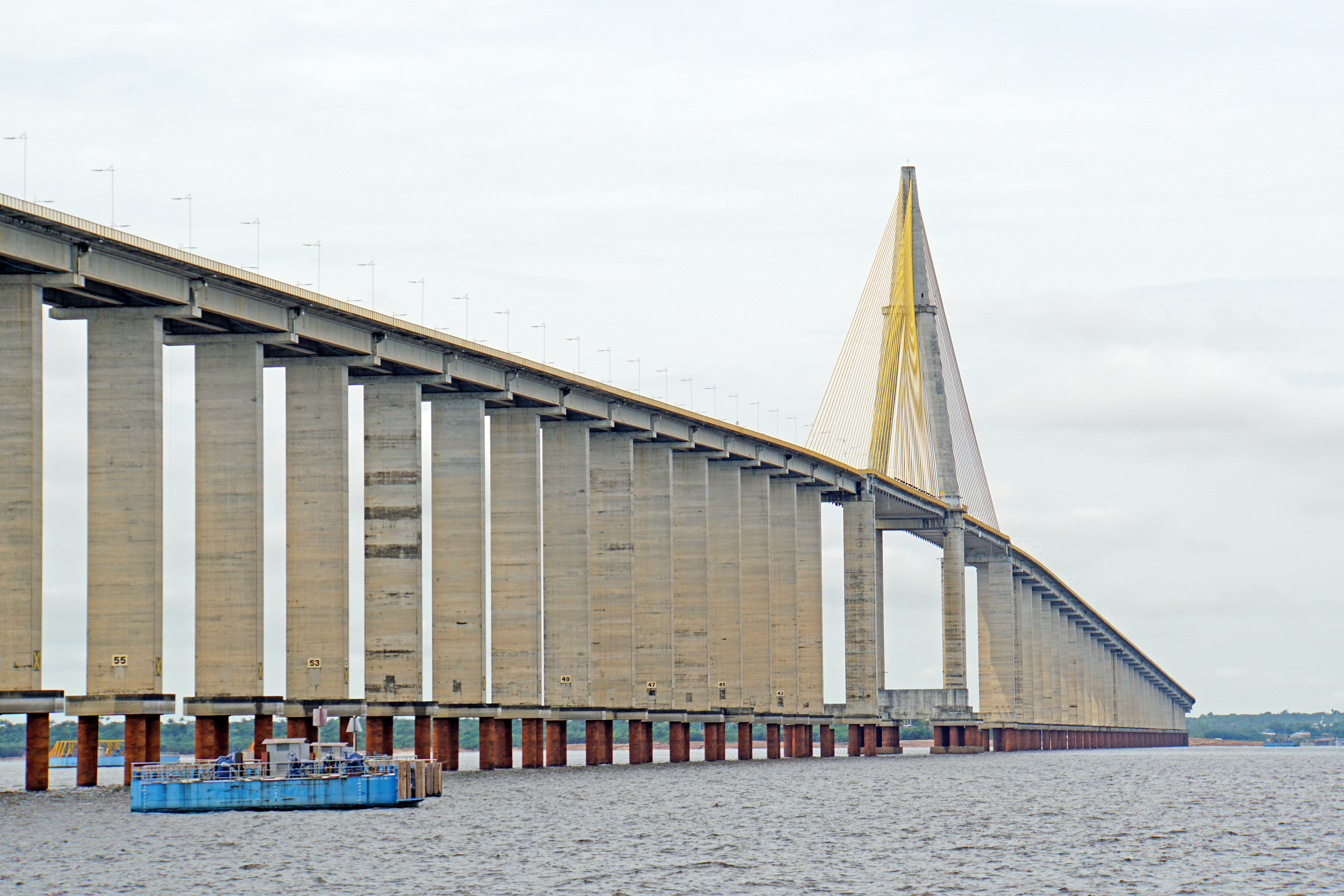 OP: "Going under the bridge. The Rio Negro Bridge is a cable-stayed bridge over the Rio Negro, 3,595 metres (11,795 ft) in length that links the cities of Manaus and Iranduba."